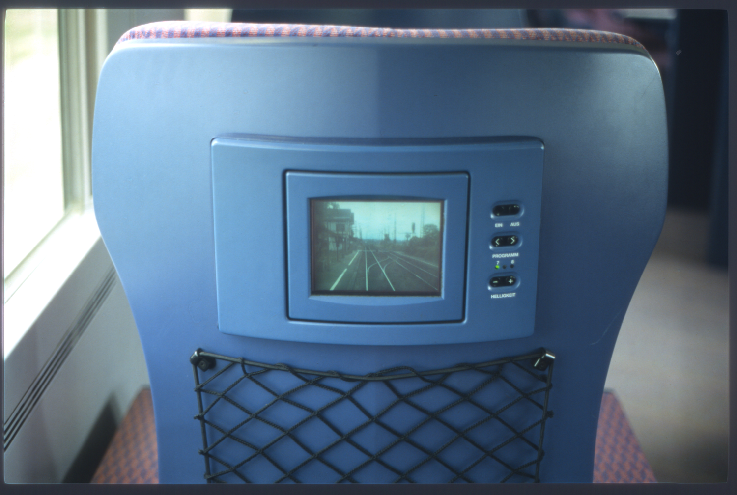 Seat back television screen on a German Railways (DB) ICE1 train in original condition / before refurbishment. In addition to watching films it was sometimes possible to see the view from the back of the train. Filmed in the 1990's.